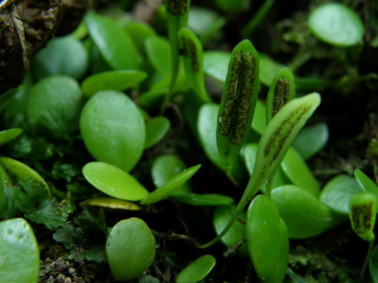 Lemmaphyllum microphyllum Presl